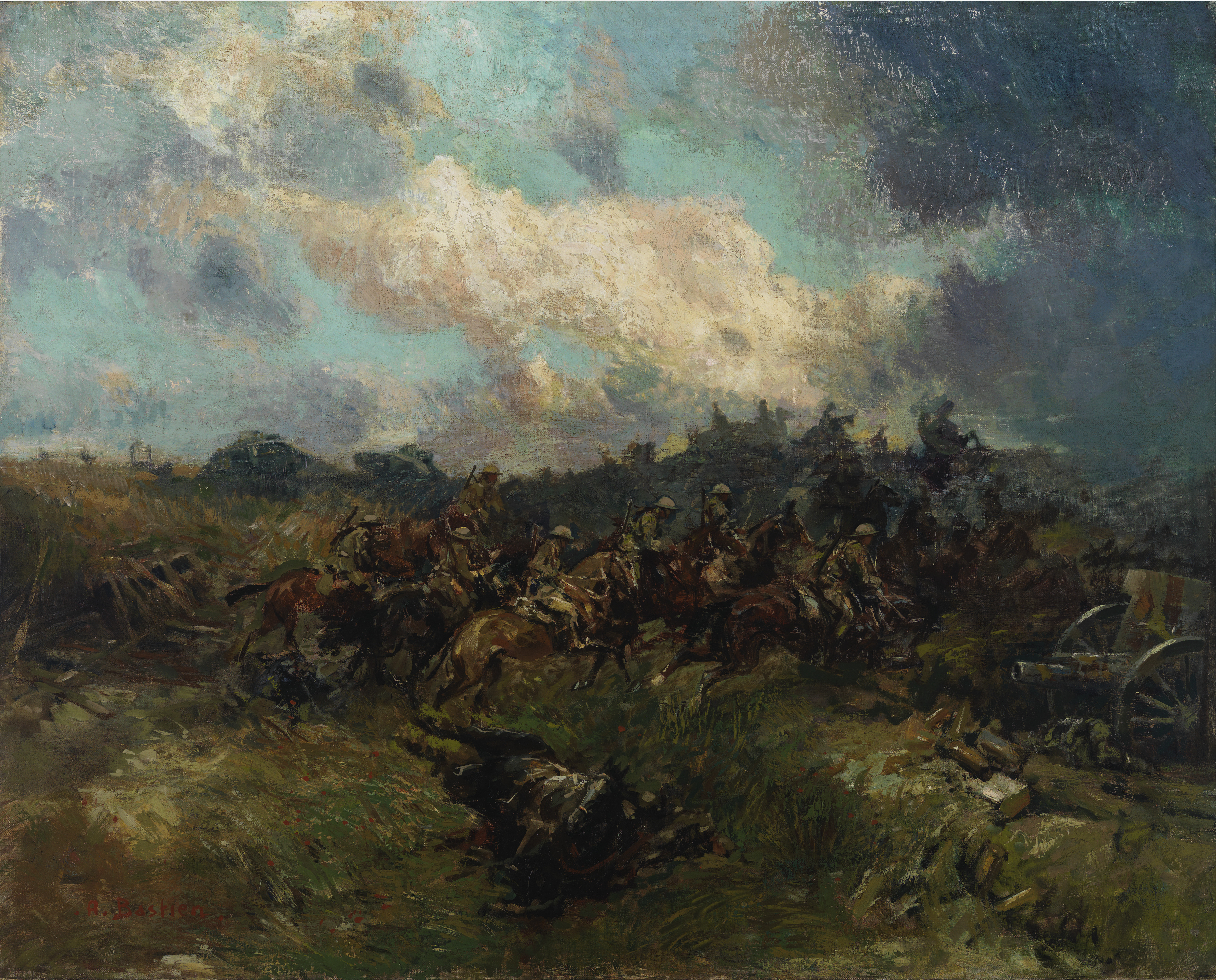 Tanks and cavalry during the advance near Arras in 1918. Although cavalry harassed retreating German forces during the open fighting that marked the Hundred Days, tanks, two of which are visible here on the skyline at left, played a more prominent and effective role.